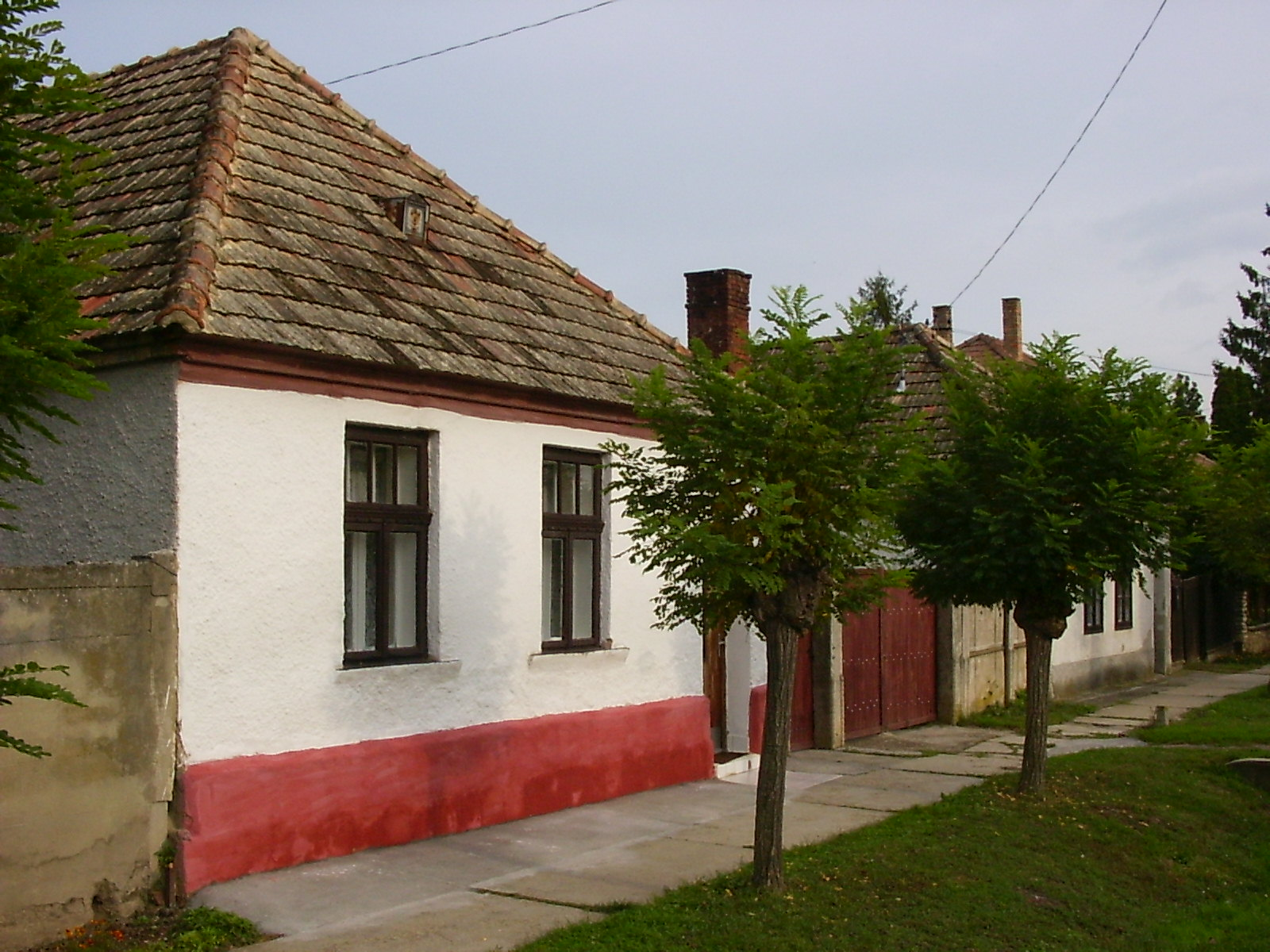 Répceszemere, home of a peasant family